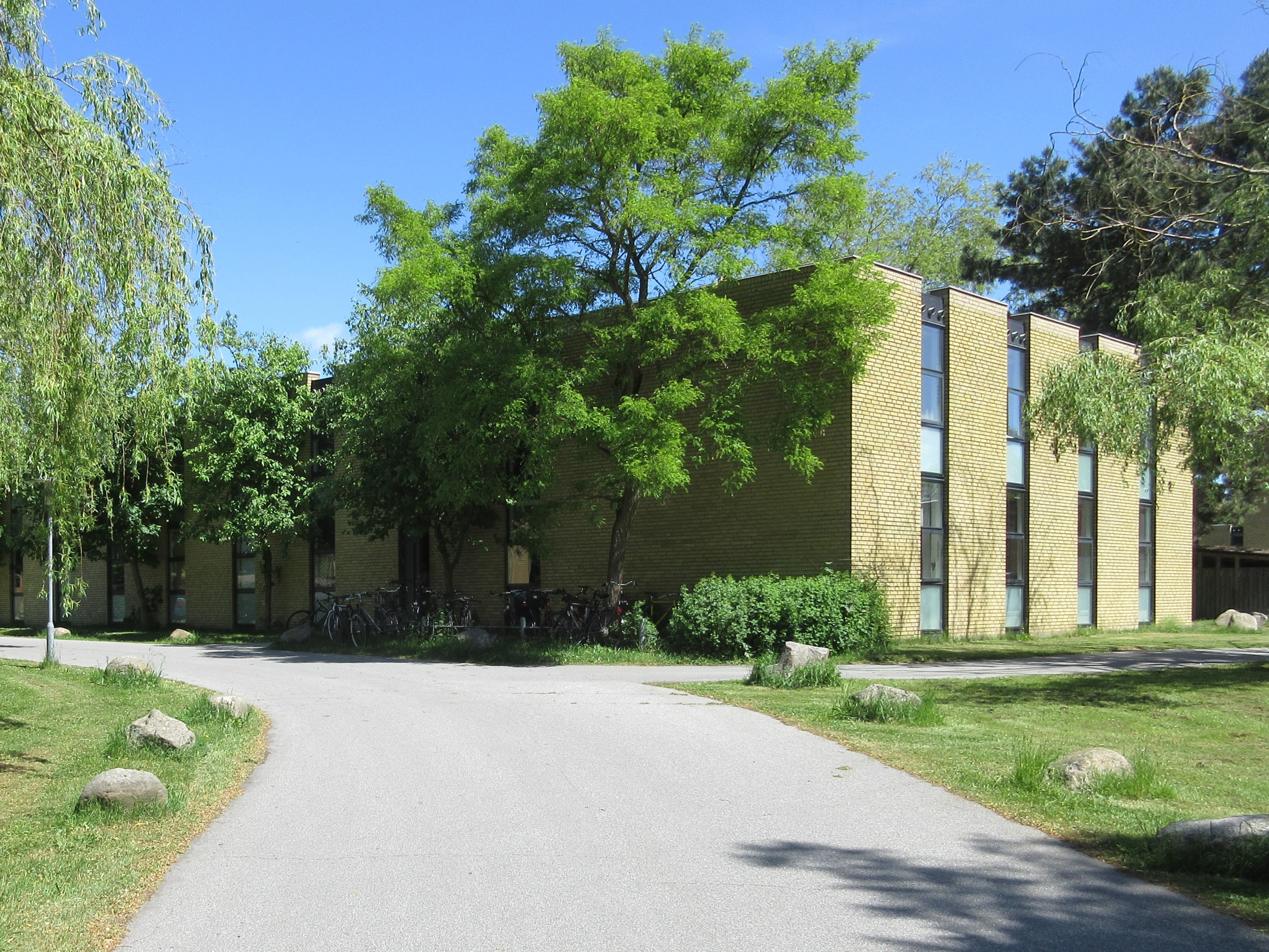 Nybrogård Kollegiet in Gladsaxe, Denmark